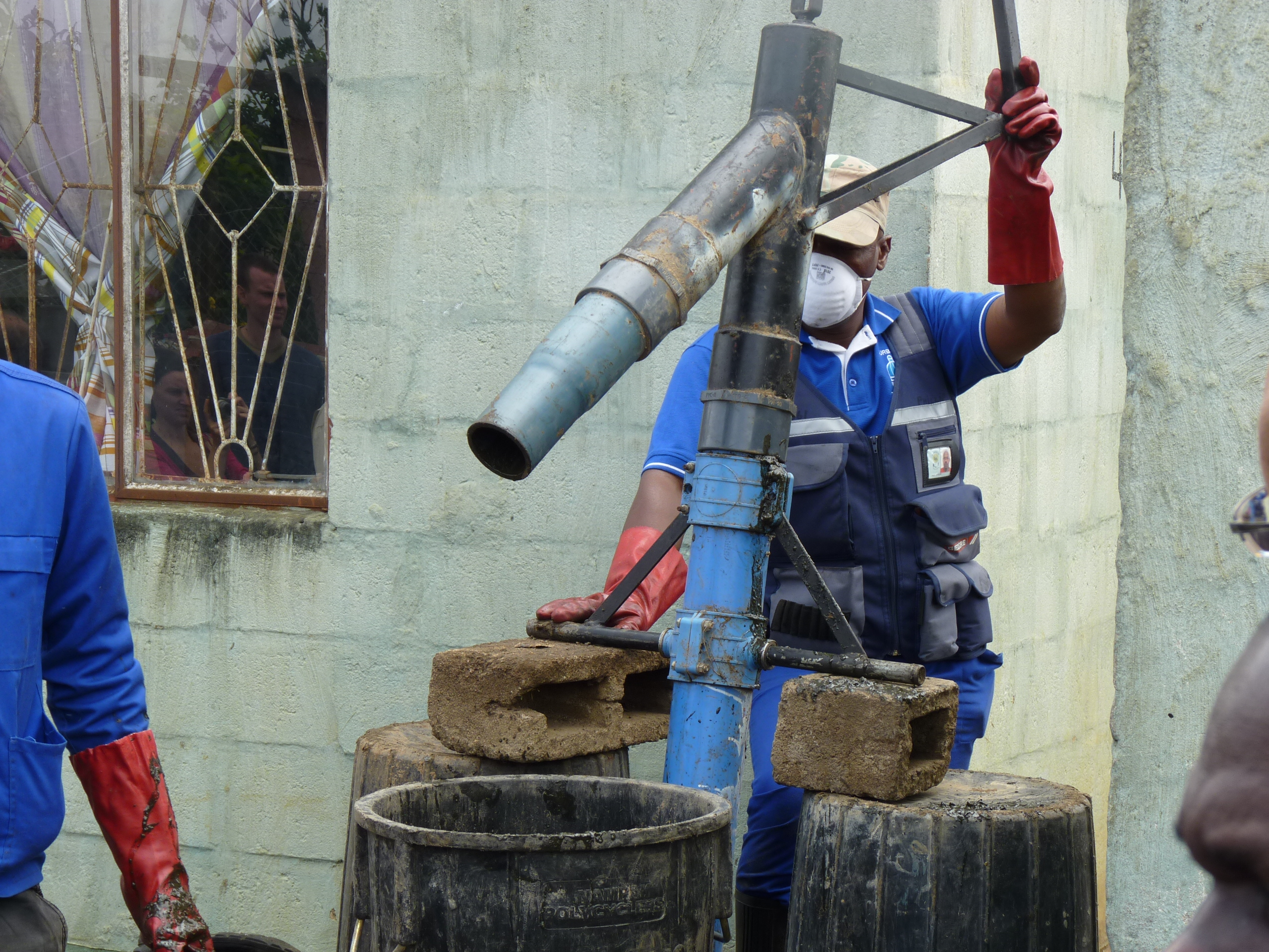 Desludging a pit latrine in eThekwini South Africa